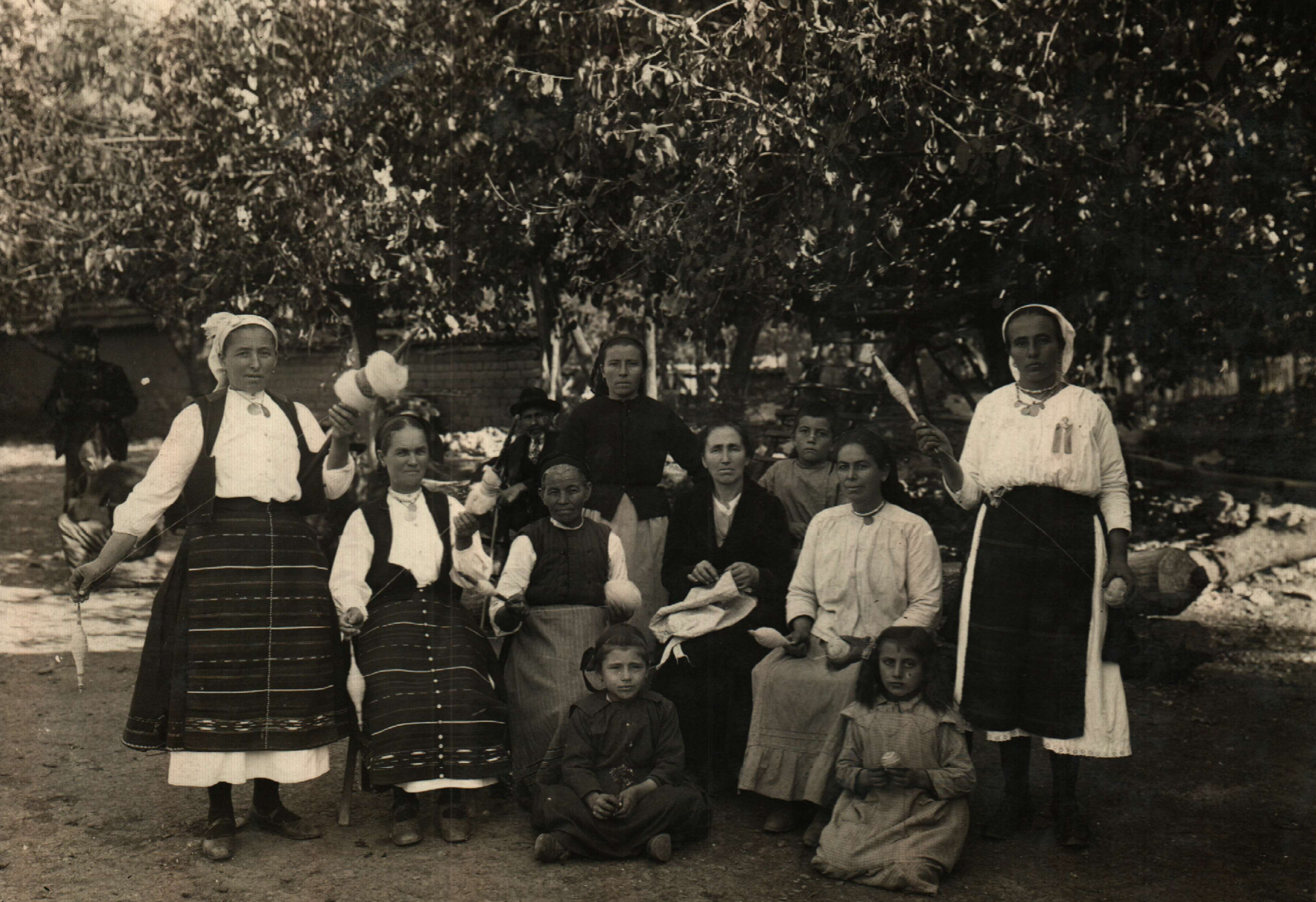 Handicraft of Bulgaria